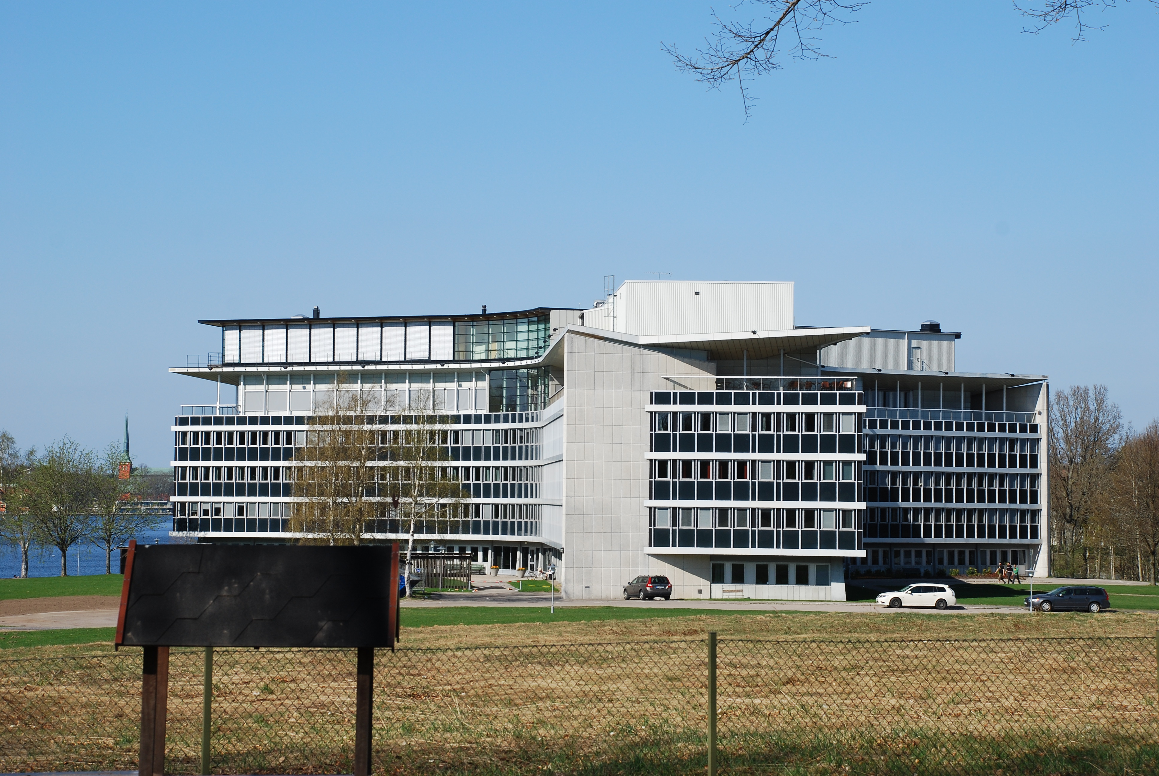 The Södra main office in Växjö, with a view of the cathedral across the lake.